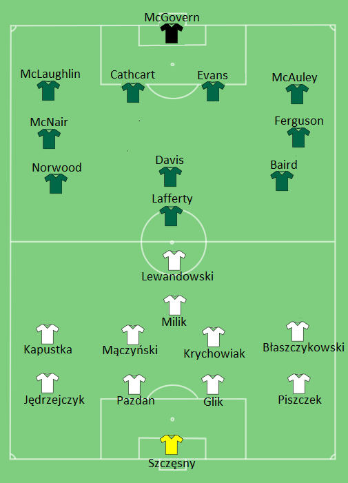 Line-ups for the UEFA Euro 2016 Group C match between Poland and Northern Ireland, played at Allianz Riviera, Nice, on 12 June 2016